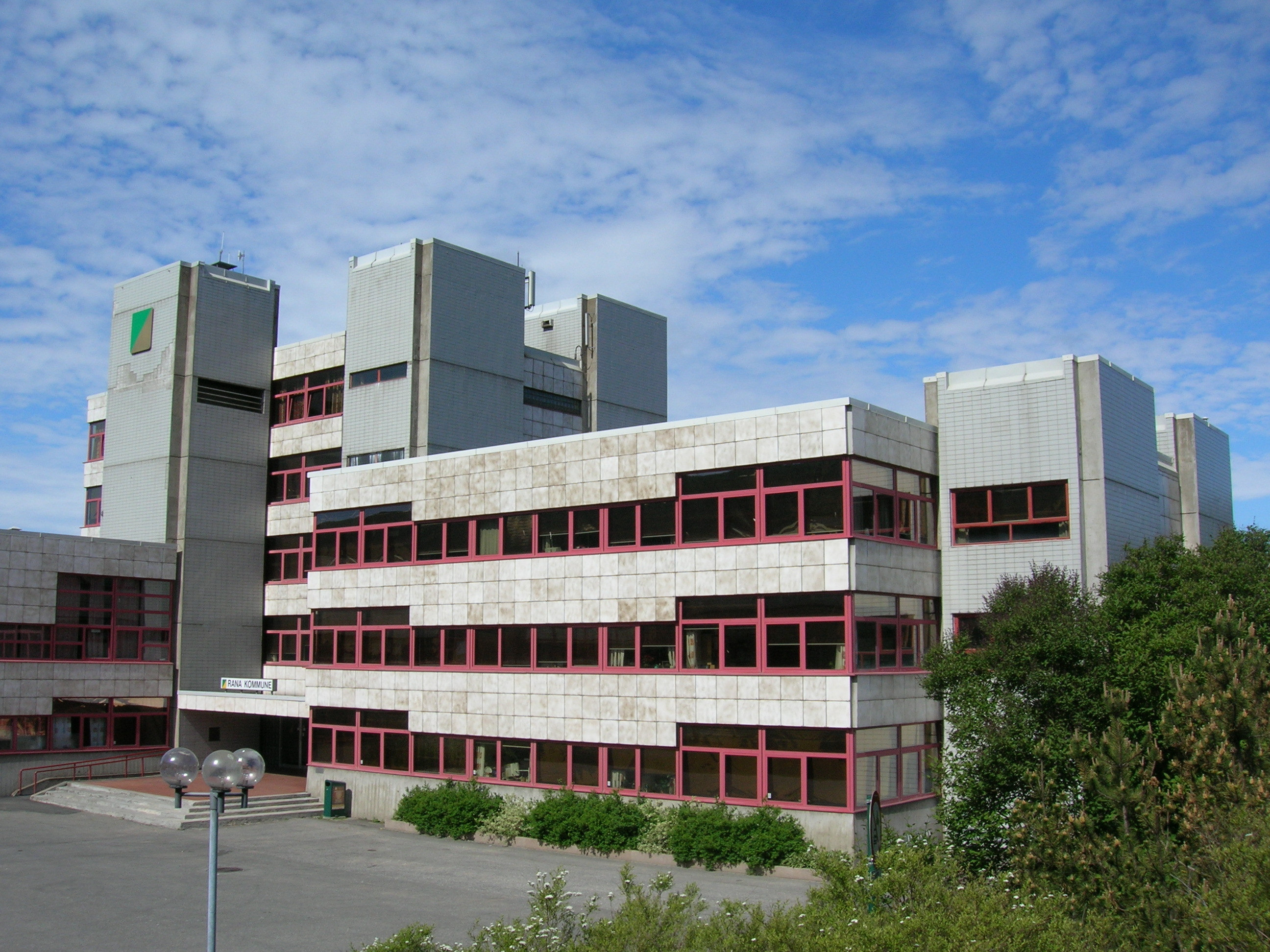 Rana city hall in Mo i Rana municipality, county of Nordland, Norway, Photo June 10, 2007 with a Nikon Coolpix 5600 5,1 Megapixel camera.